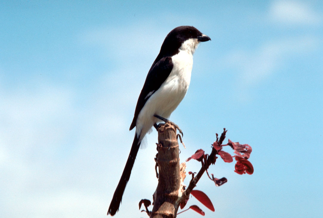 Long-tailed Fiscal Shrike (Lanius cabanisi)